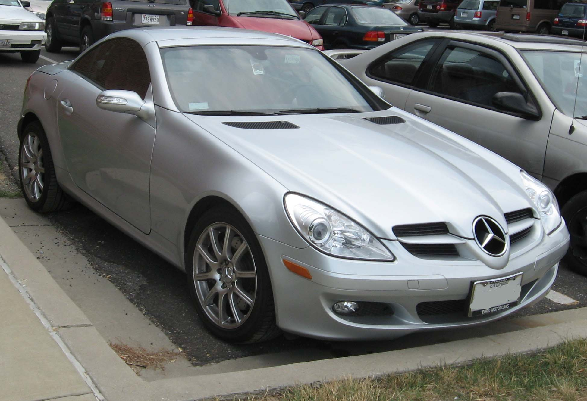 2005-2007 Mercedes-Benz SLK photographed in USA.